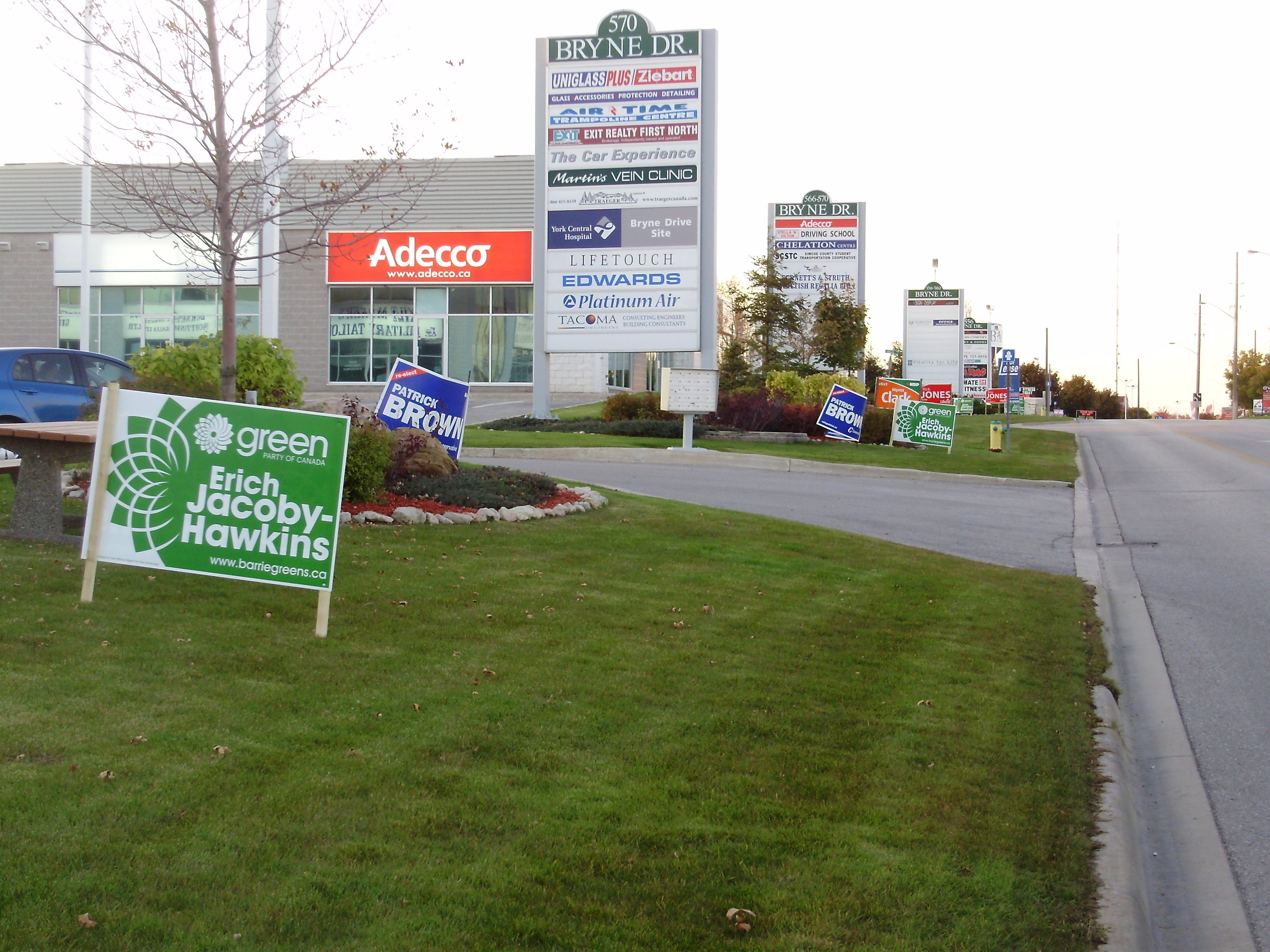 Signs for the four major political parties running candidates in Ontario for the 40th Canadian general election line the west side of Bryne Drive in Barrie, in the Barrie electoral riding.